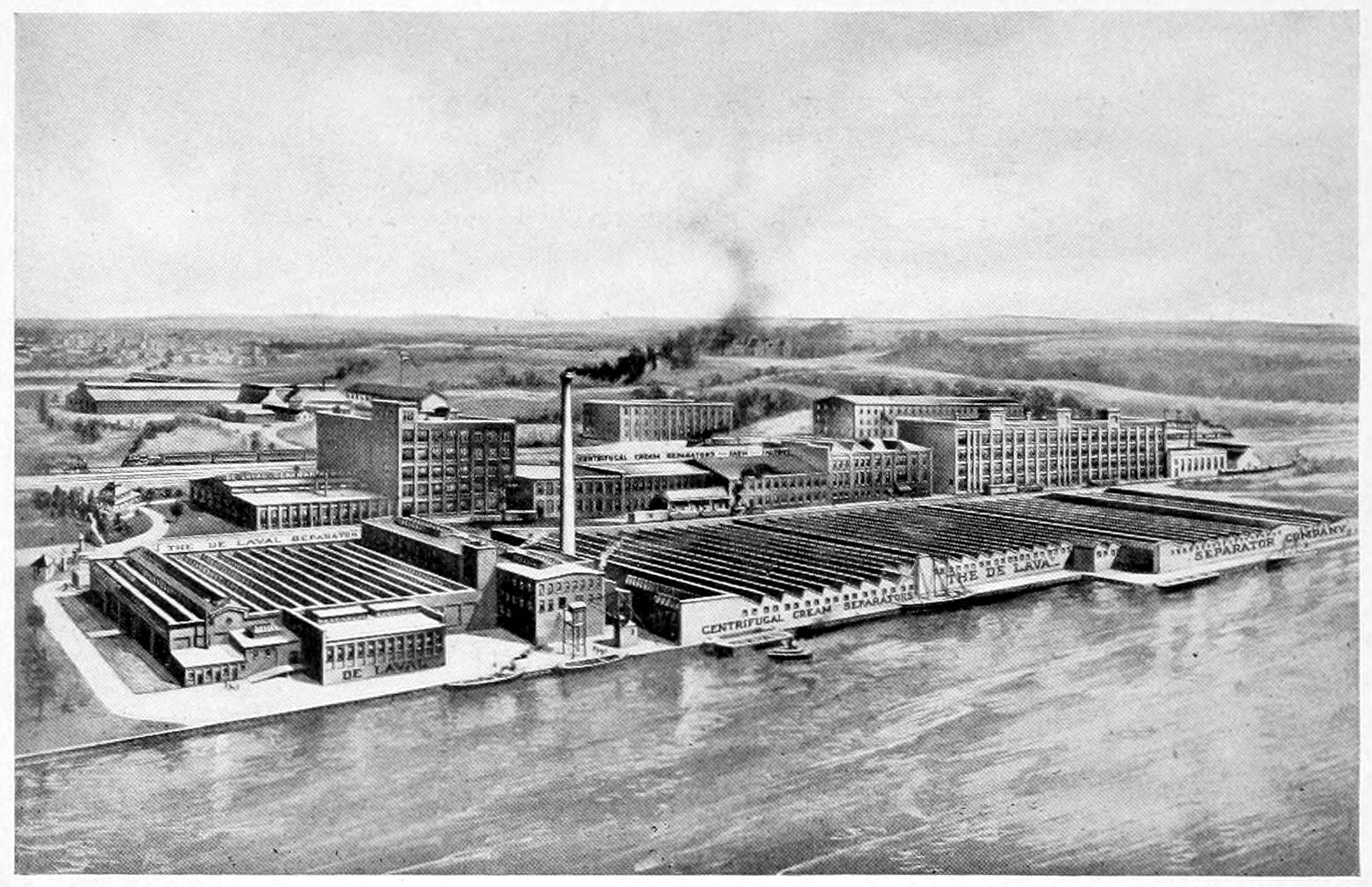 General American Works of The De Laval Separator Company. Poughkeepsie, N. Y.